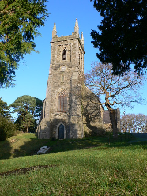 St Mary's Church, Menai Bridge Built in the 1850's to replace a former church that dated back to the Middle Ages.